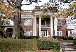 Herndon Home in Atlanta, Georgia; completed in w:1910